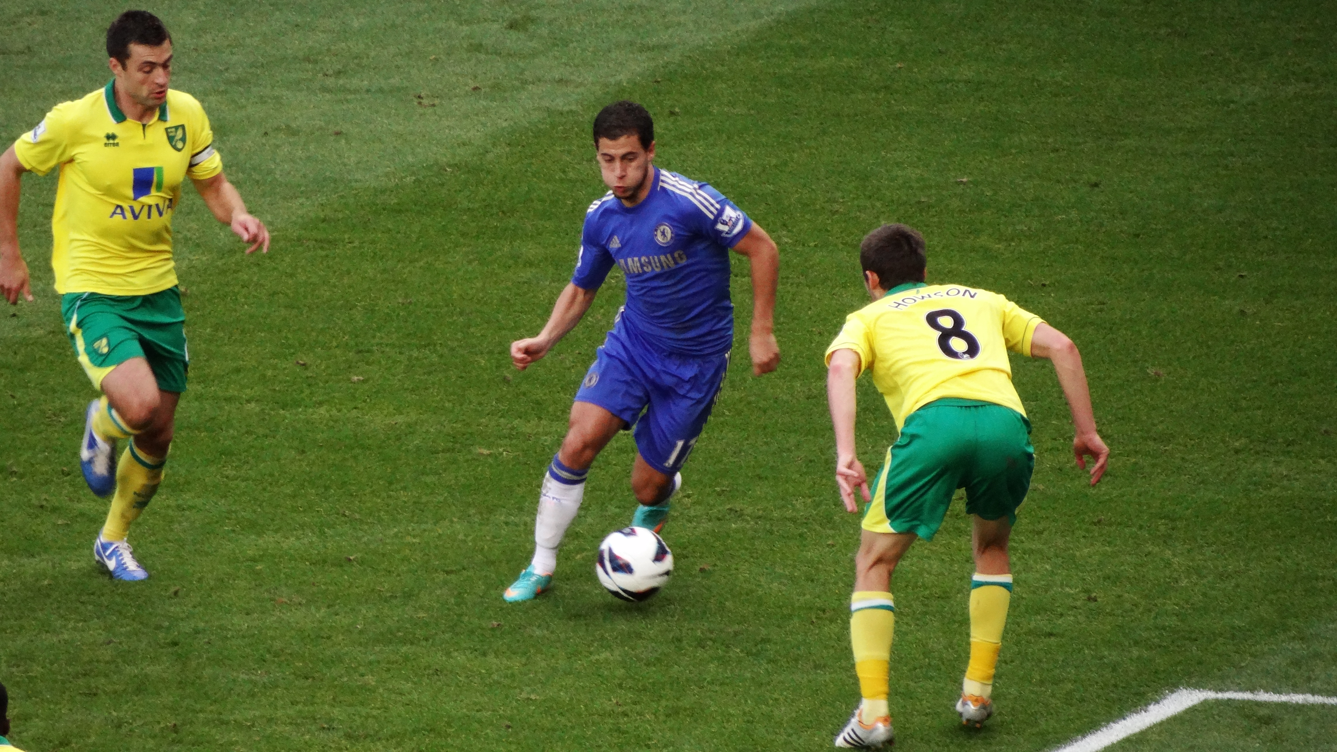 Eden Hazard taking on Norwich City's Jonny Howson.